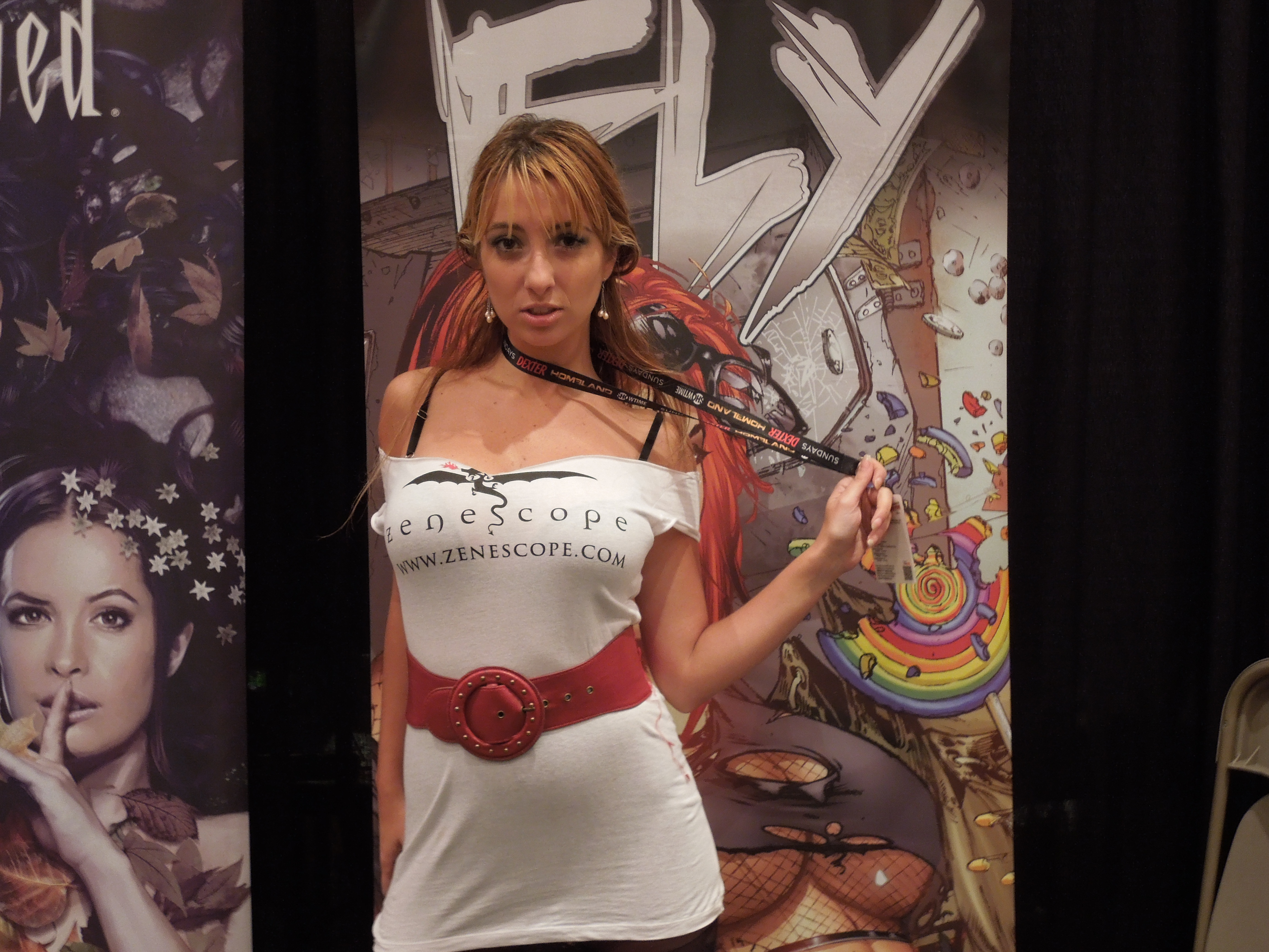 Lauren Francesca at the 2011 New York Comic Con